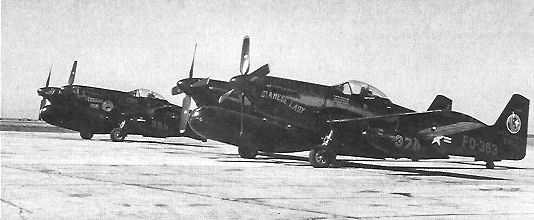 F-82G Twin Mustang 46-371, 68th Fighter Squadron, 1951